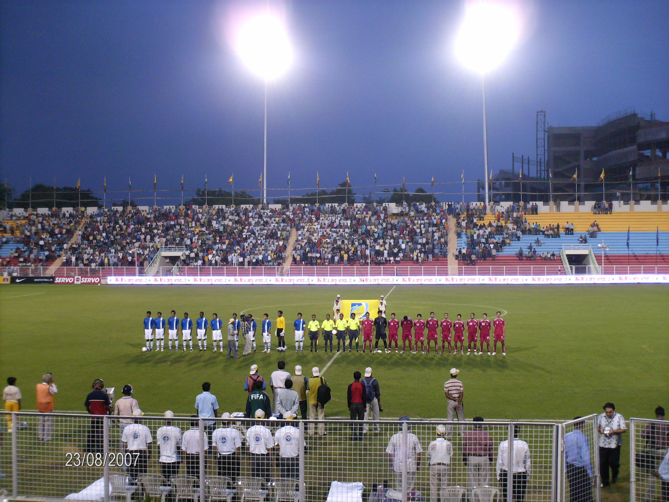 August 23, 2007 India vs Syria on the 2007 ONGC Nehru Cup International Football Tournament. match at the Ambedkar Stadium in New Delhi, India.